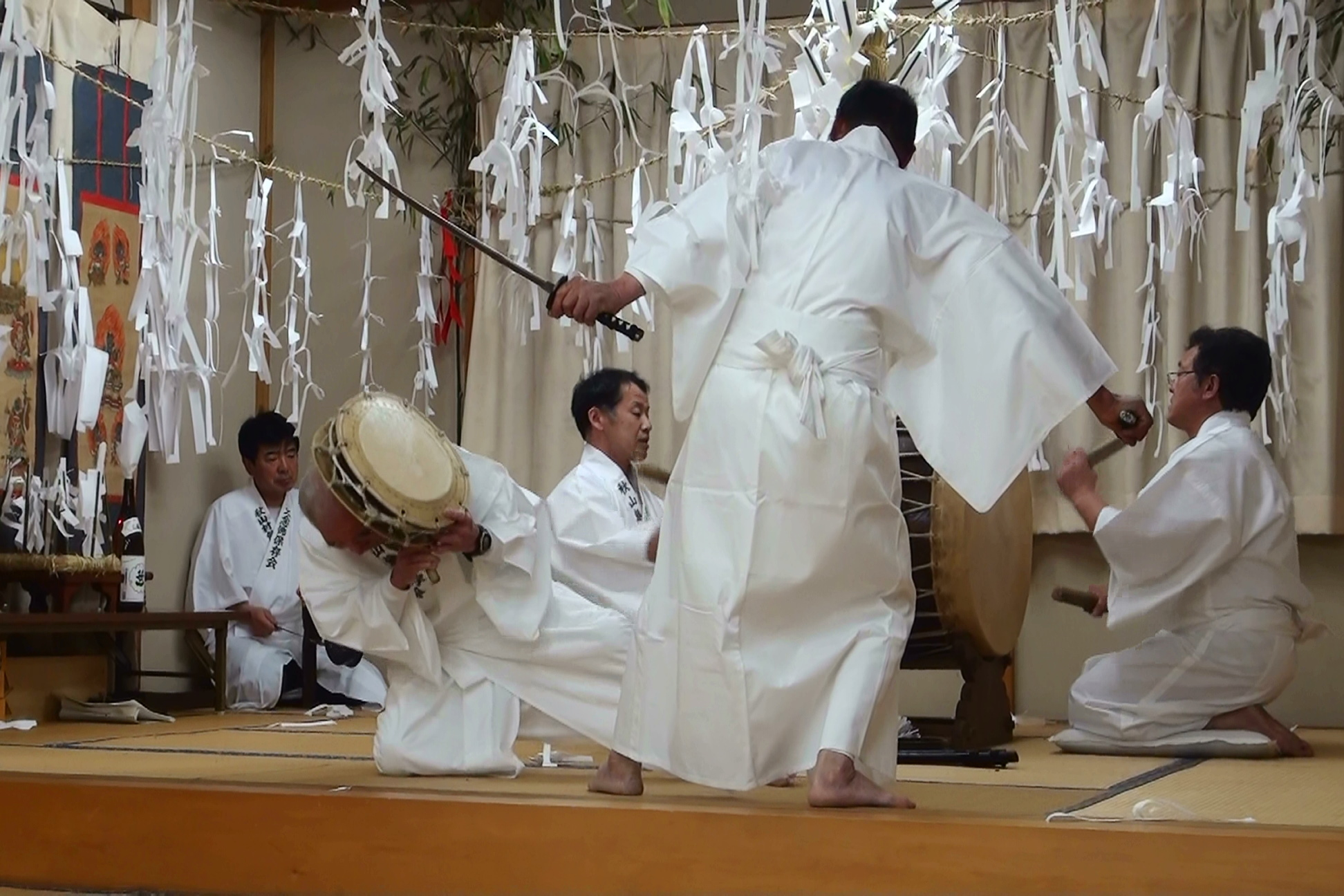 Mushono-Dainembutsu dance of Nihontachi